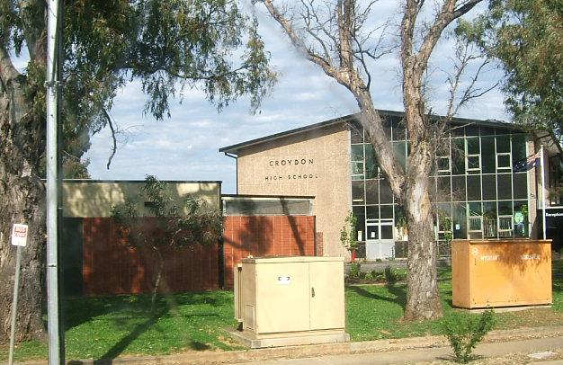 Croydon High School, West Croydon, Adelaide, South Australia